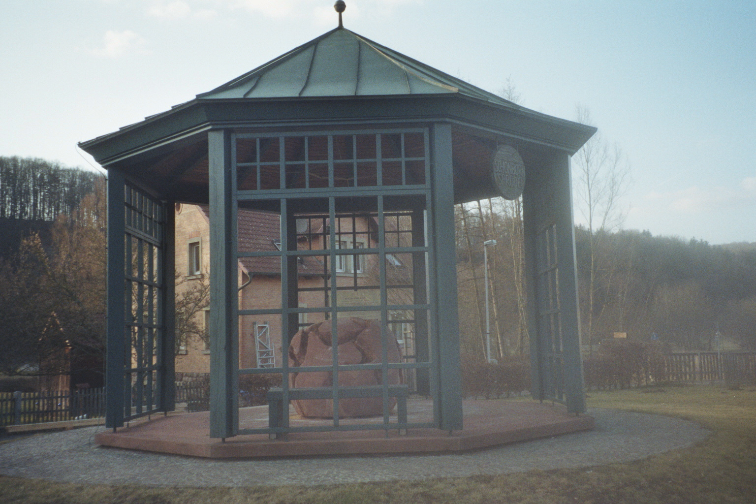 Pavilion in Hausen, a quarter of the German spa town of Bad Kissingen (Lower Franconia, Bavaria).